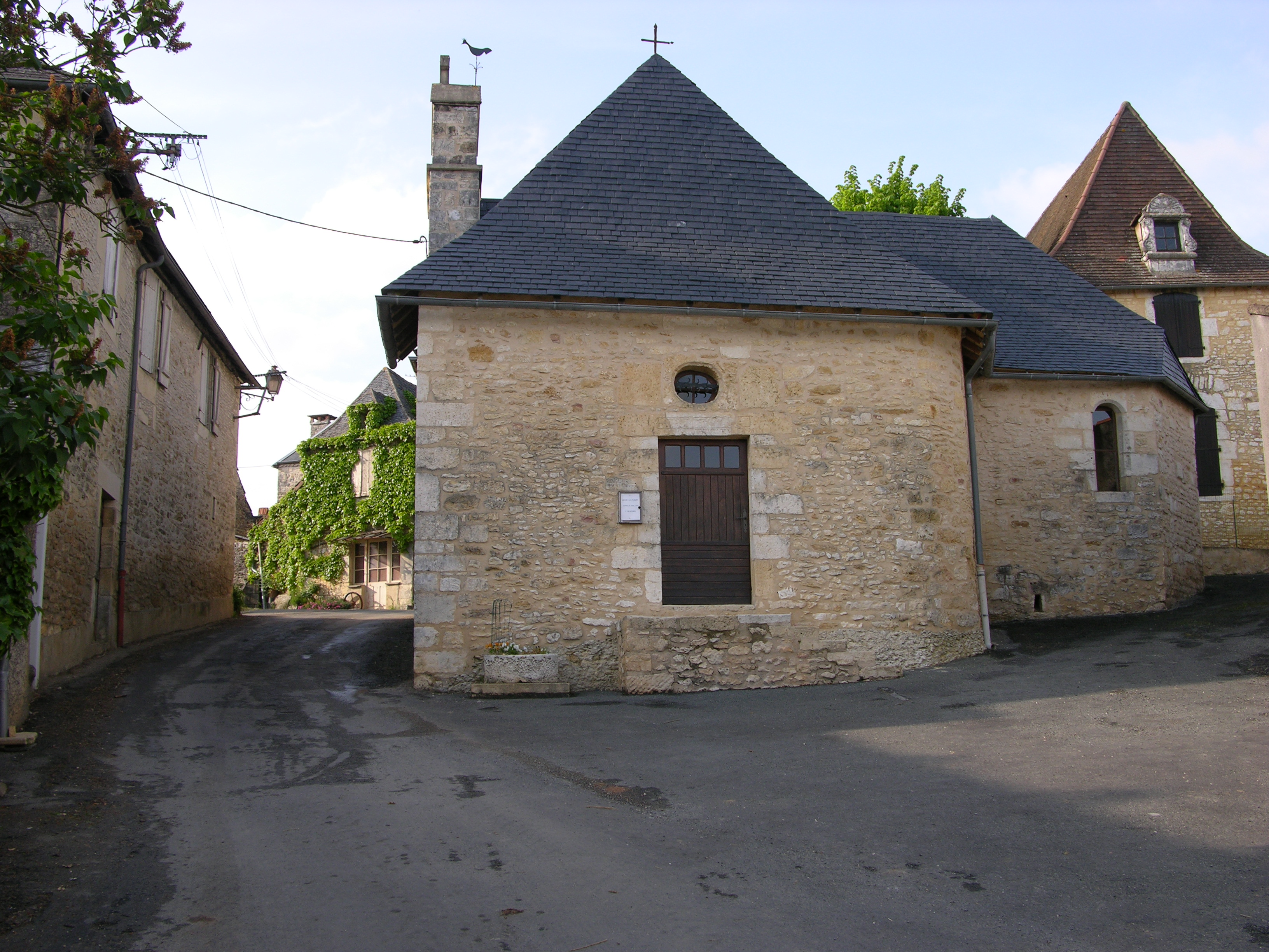 Small chapel in the village of Les Farges, France